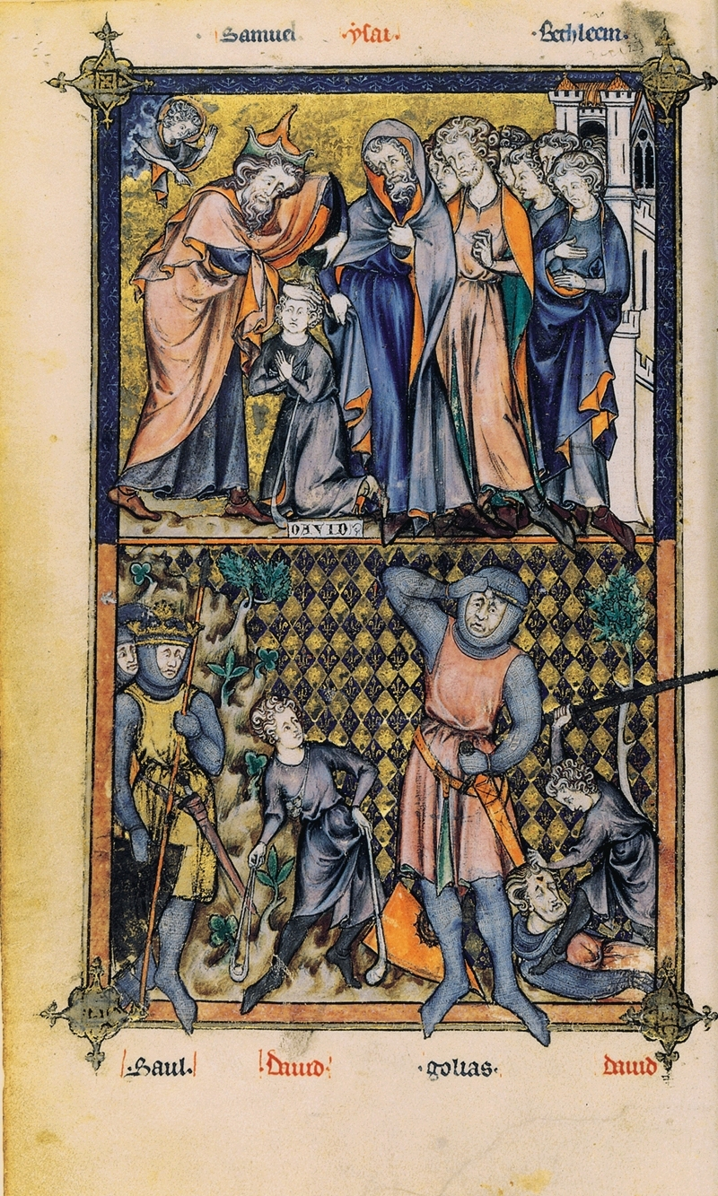 David anointed by Samuel and battle of David and Goliath, folio 7 verso of the Breviary of Philippe le Bel